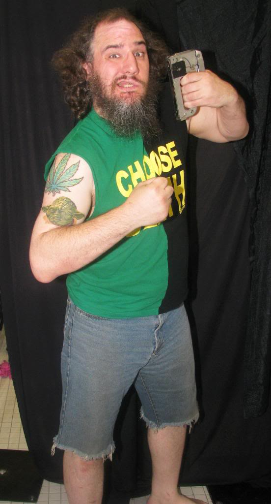 Promo photo of Necro Butcher taken in 2009